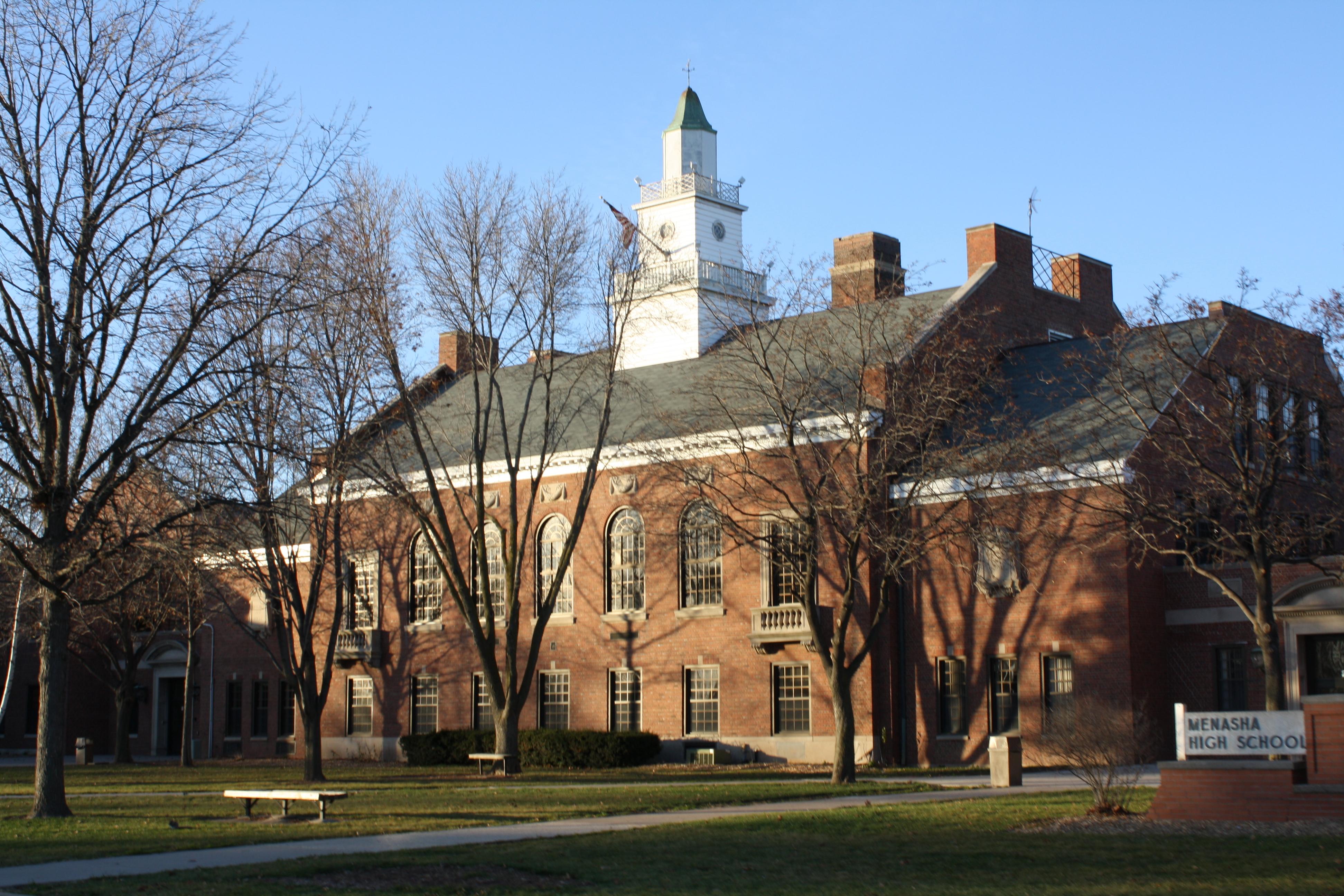 The Menasha High School in Menasha, Wisconsin.